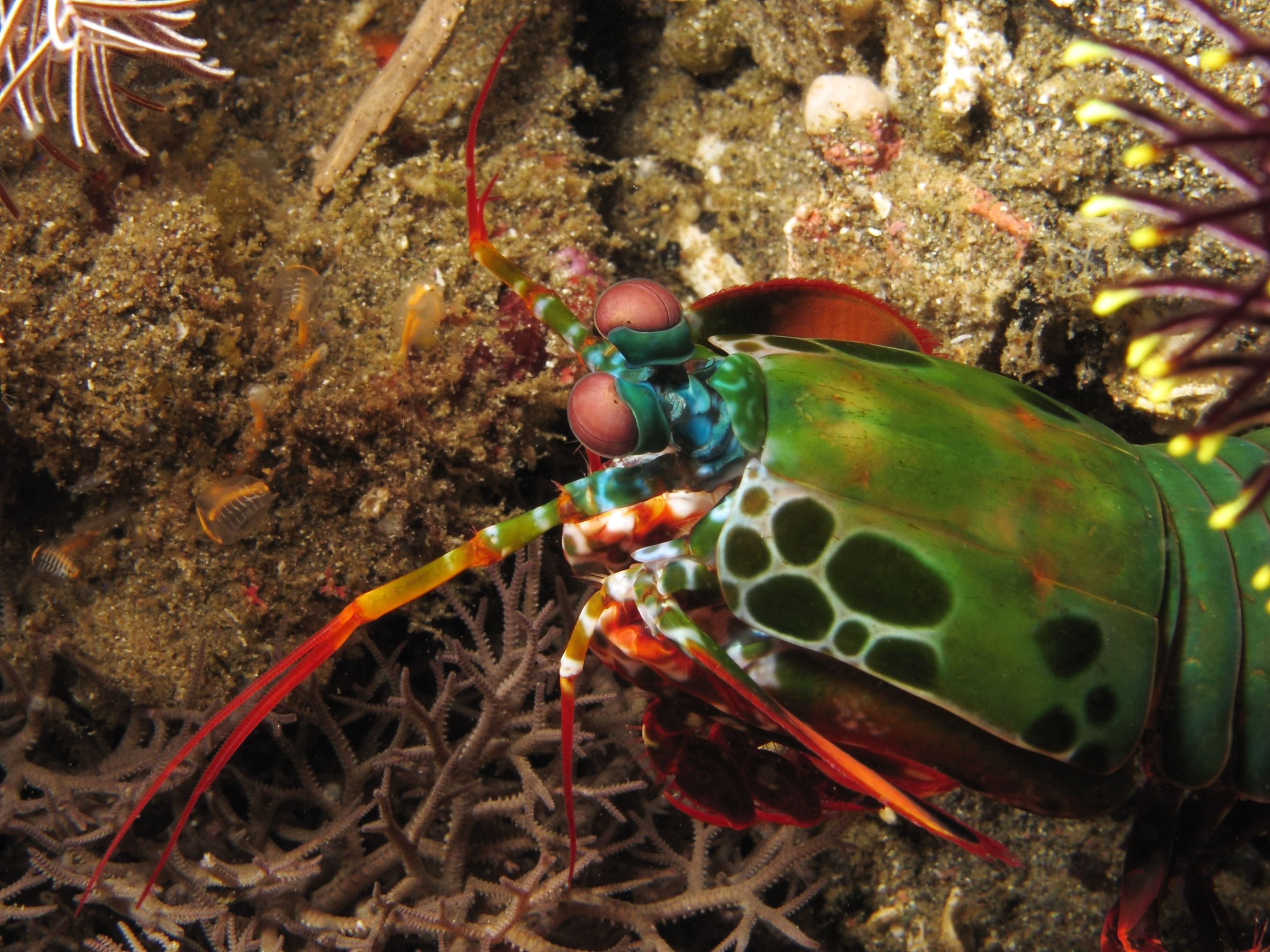 Mantis shrimp (Odontodactylus scyllarus) near Nusa Kode Island (near Komodo, Indonesia)